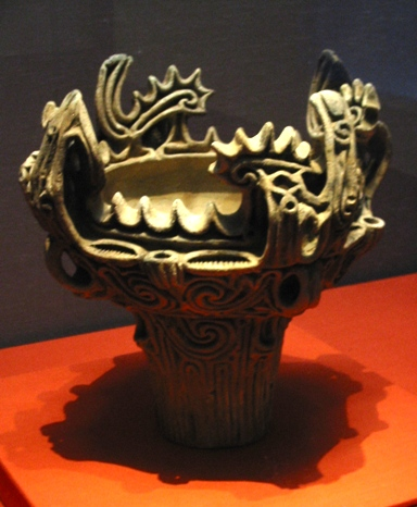 Jomon vessel with flame-like ornamentation. Middle Jomon (3000-2000 BCE). Attributed provenance: Umataka, Nagaoka-shi, Niigata. Tokyo National Museum.